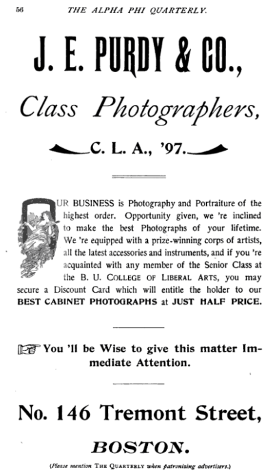 Advertisement for business in Boston, Massachusetts, USA